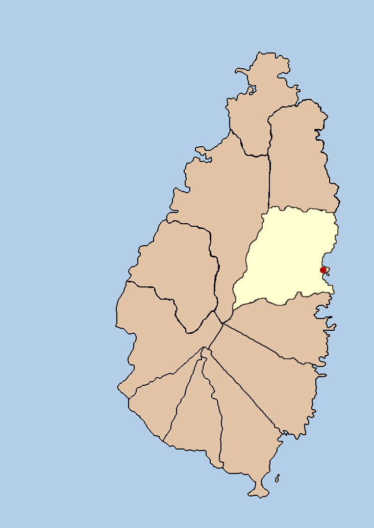 this is a political map showing the quarter of Dennery on the island nation of Santa Lucia. I created it myself by using the GIMP to trace a public domain map that i found at the Perry-Castañeda Library Map Collection.